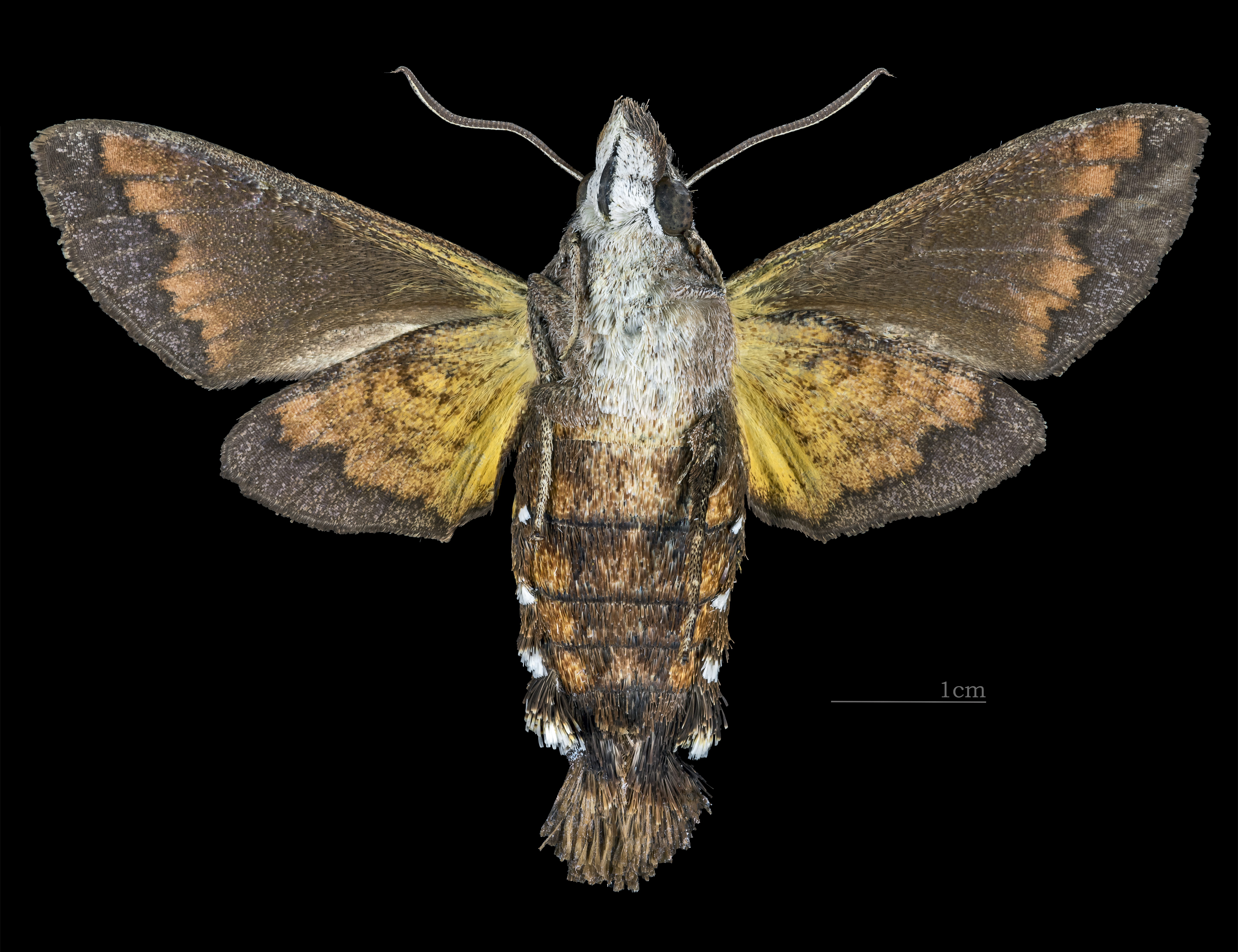 Hermit hummingbird hawkmoth - △ Ventral side Collection of the Mathematician Laurent Schwartz